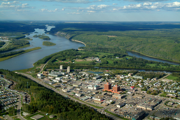 Aerial view of downtown Fort McMurray. Author: Regional Municipality of Wood Buffalo